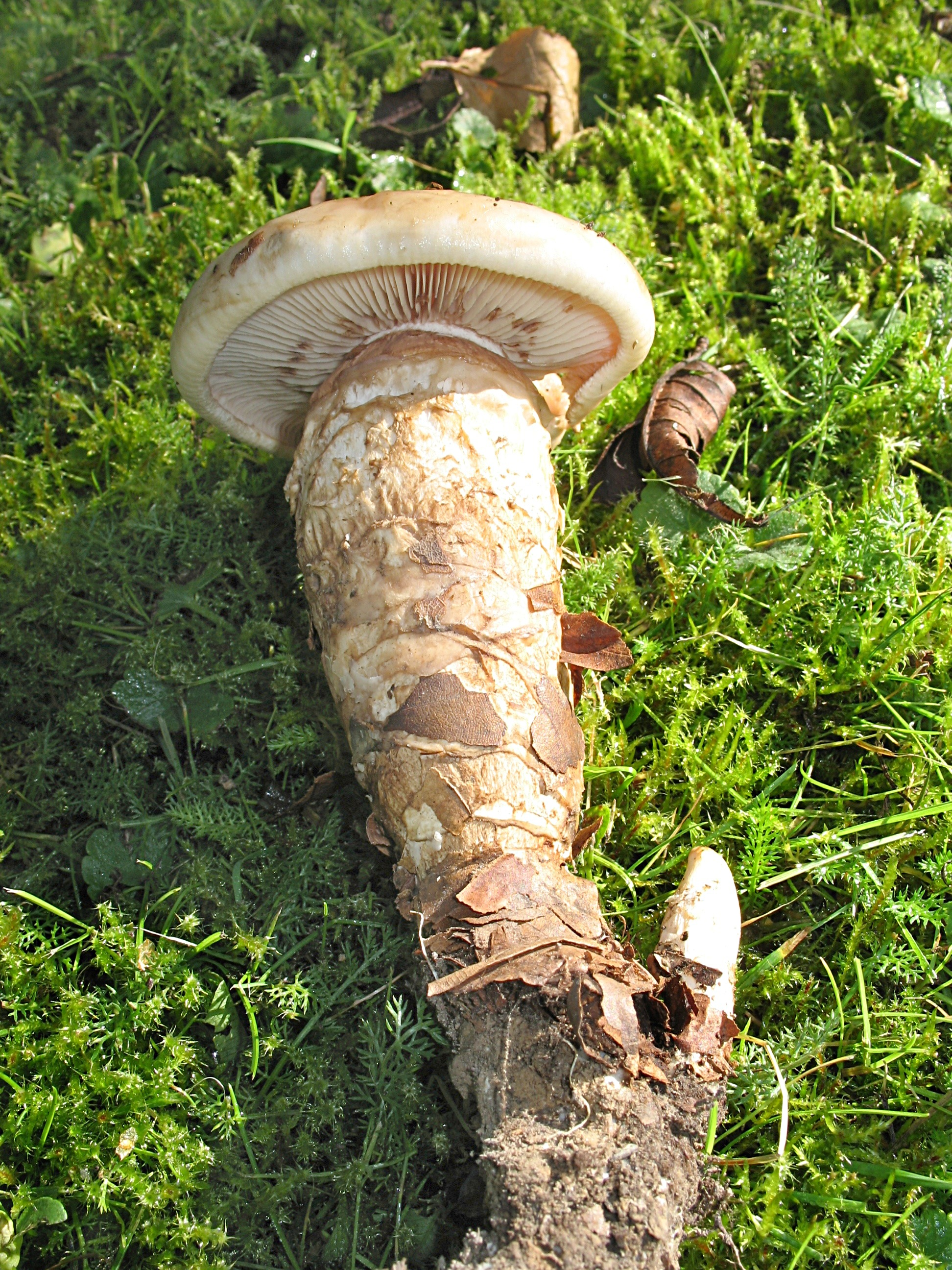 Excavated fruiting body of Hebeloma radicosum (